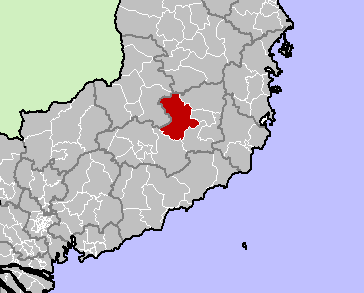 Lam Ha District, Lam Dong Province, Vietnam.